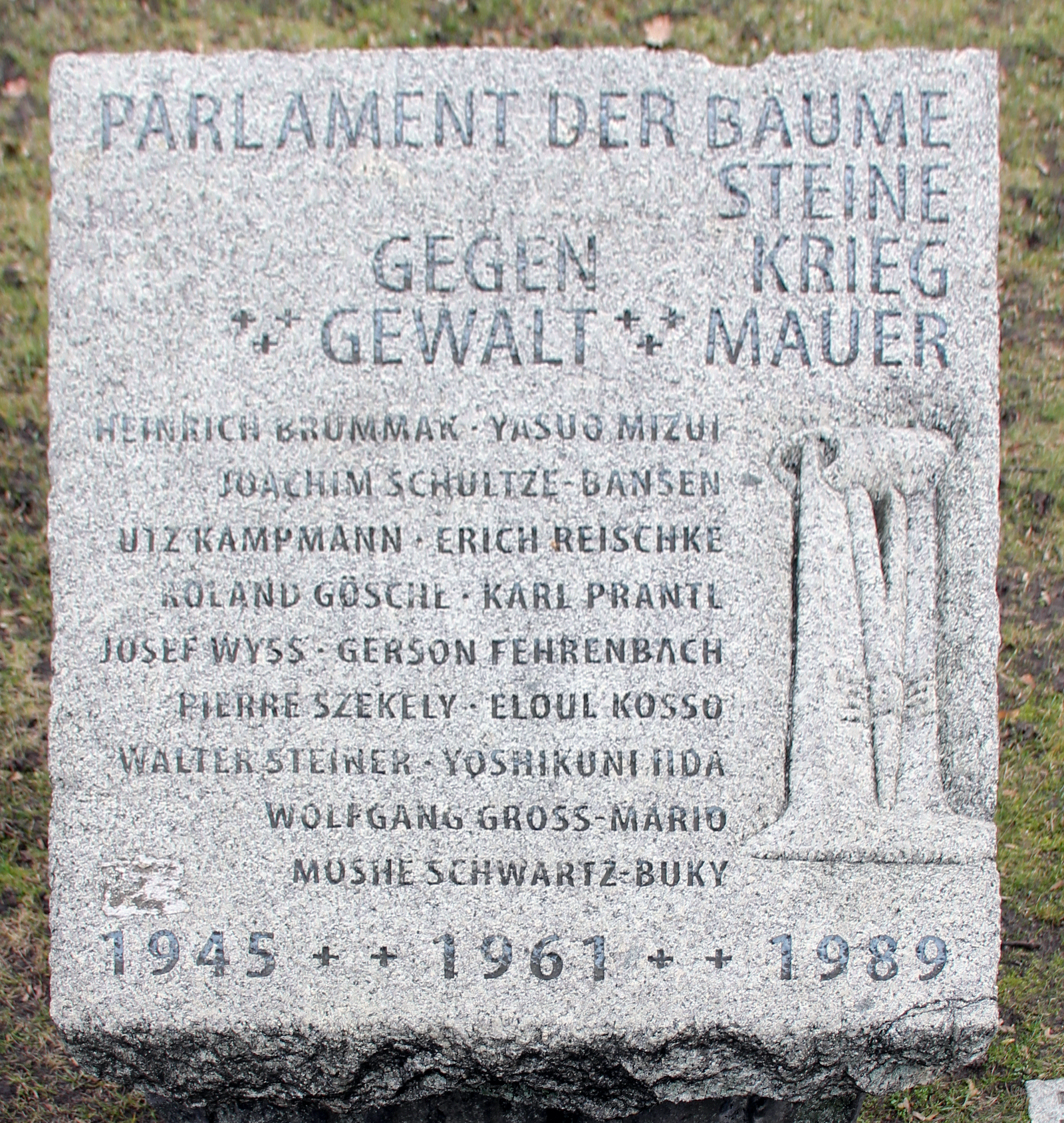 Memorial plaque, Parlament der Bäume, Große Querallee, Berlin-Tiergarten, Deutschland